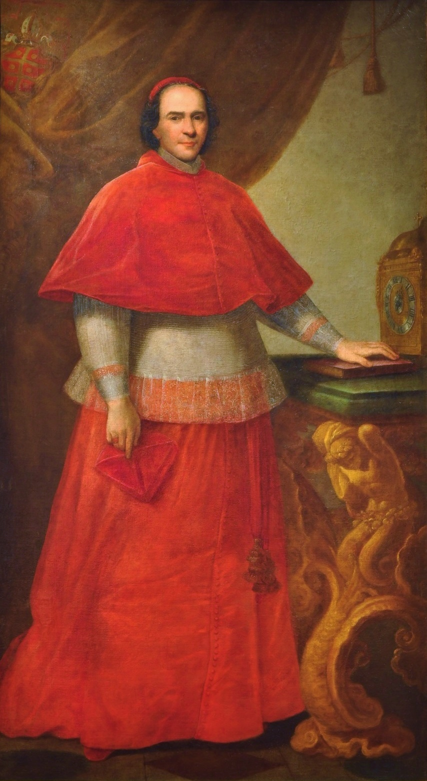 Portrait of Tomás de Almeida (1670-1754), 1st Cardinal-Patriarch of Lisbon